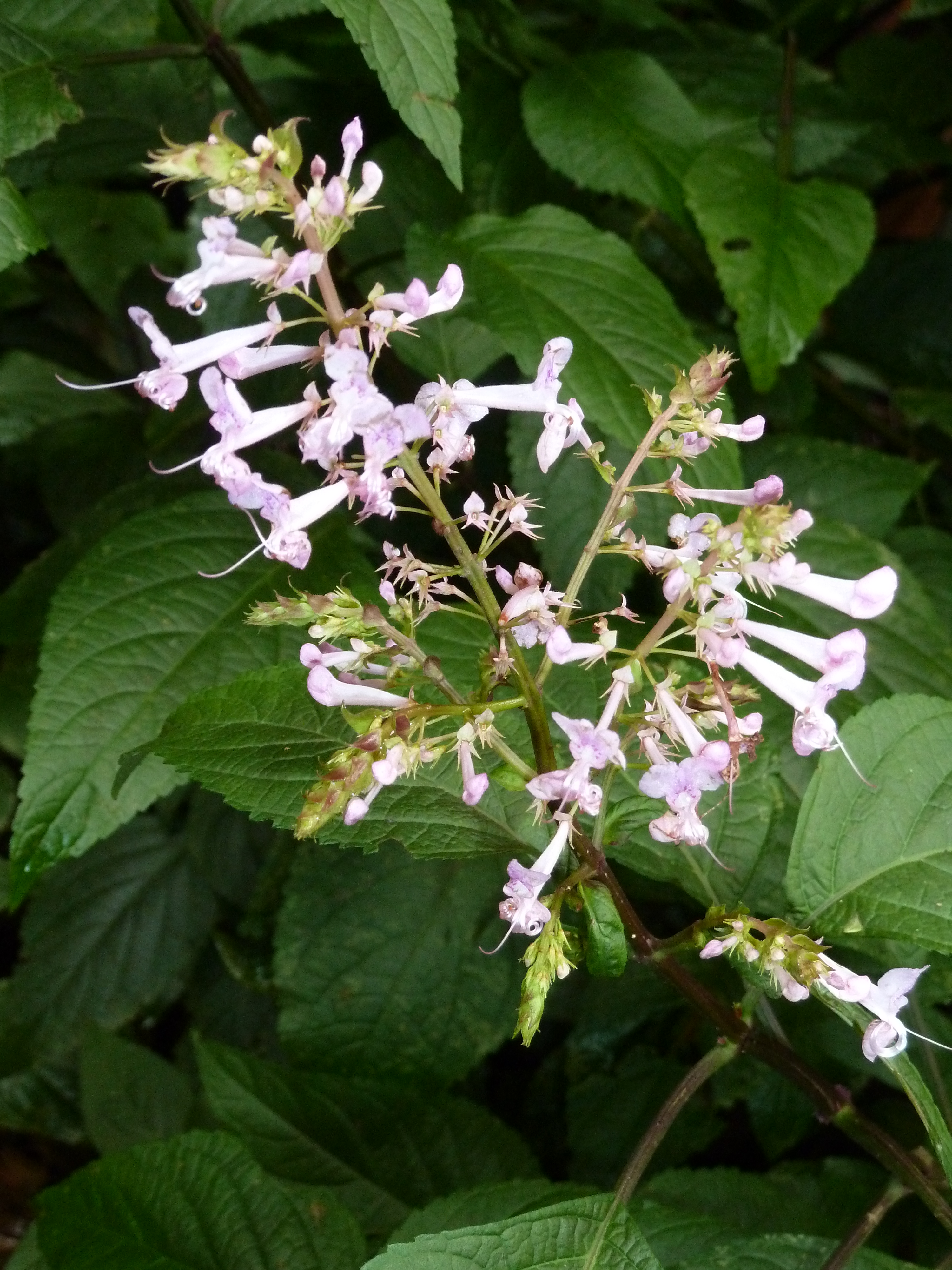 Pink cultivar of the Spurflower in the Manie van der Schijff Botanical Garden, Pretoria